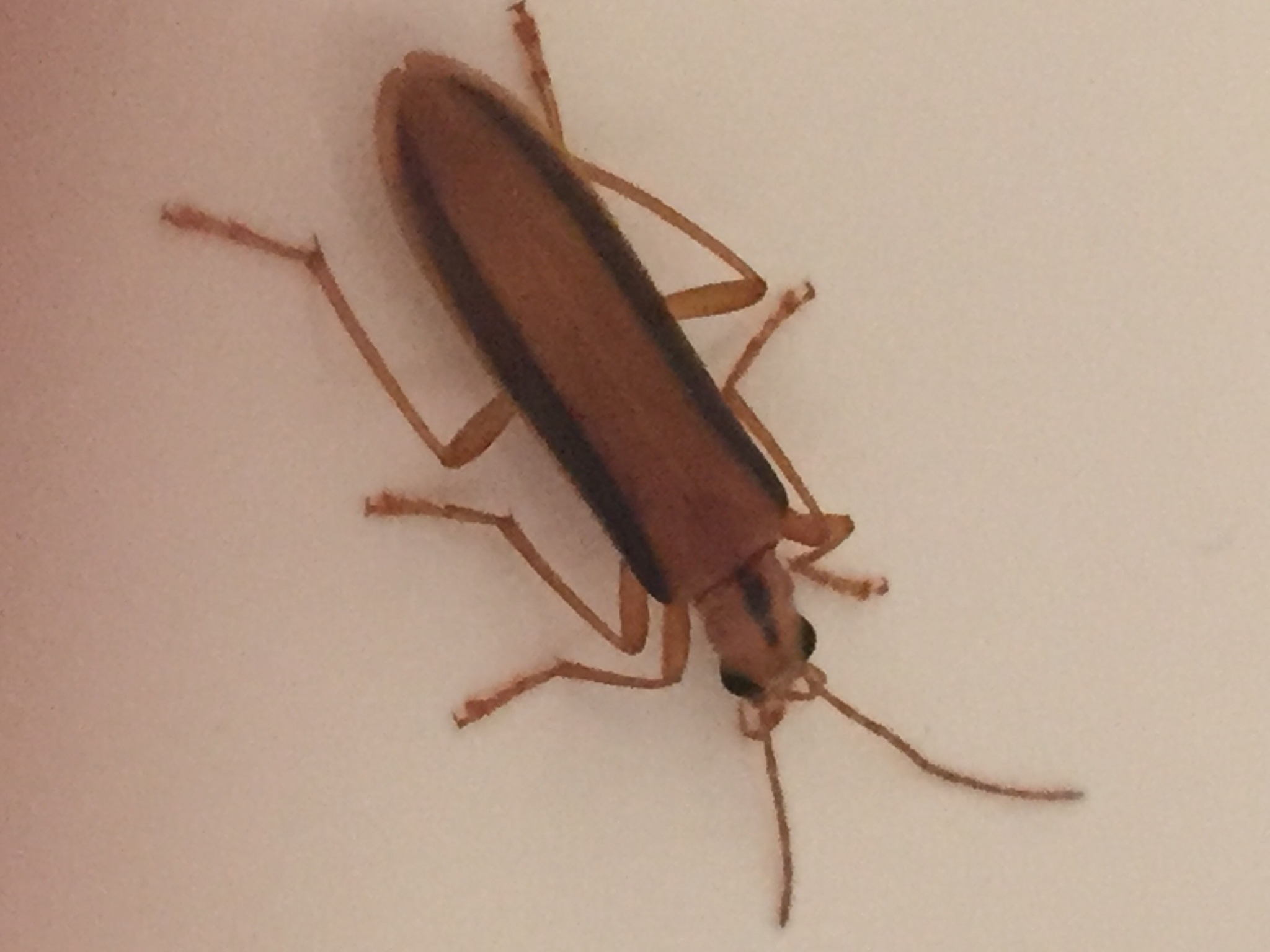 Striped lax beetle (Thelyphassa lineata)